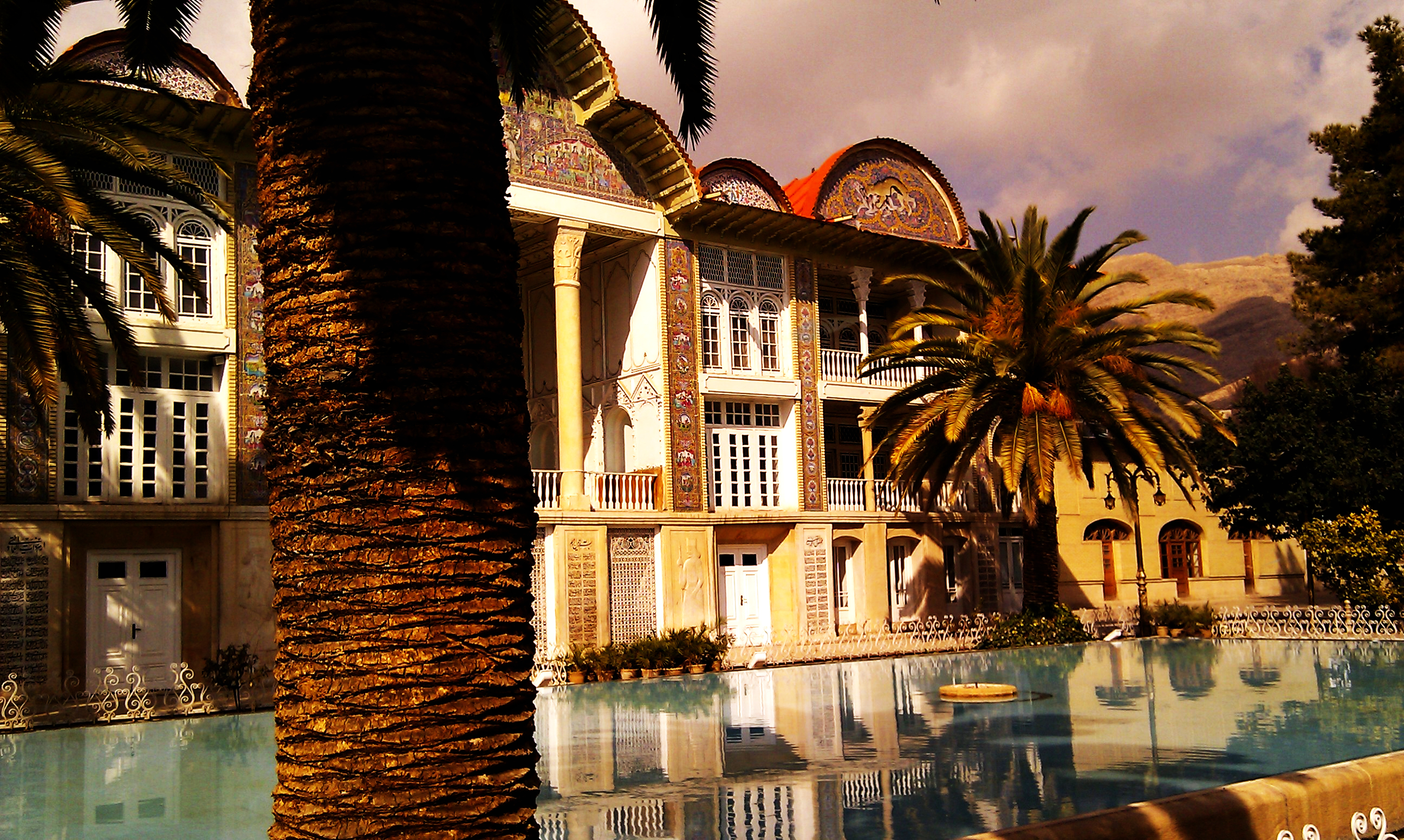 Ghavam—Qavam Garden (house) and Eram Garden pool and palms, Shiraz, Iran.